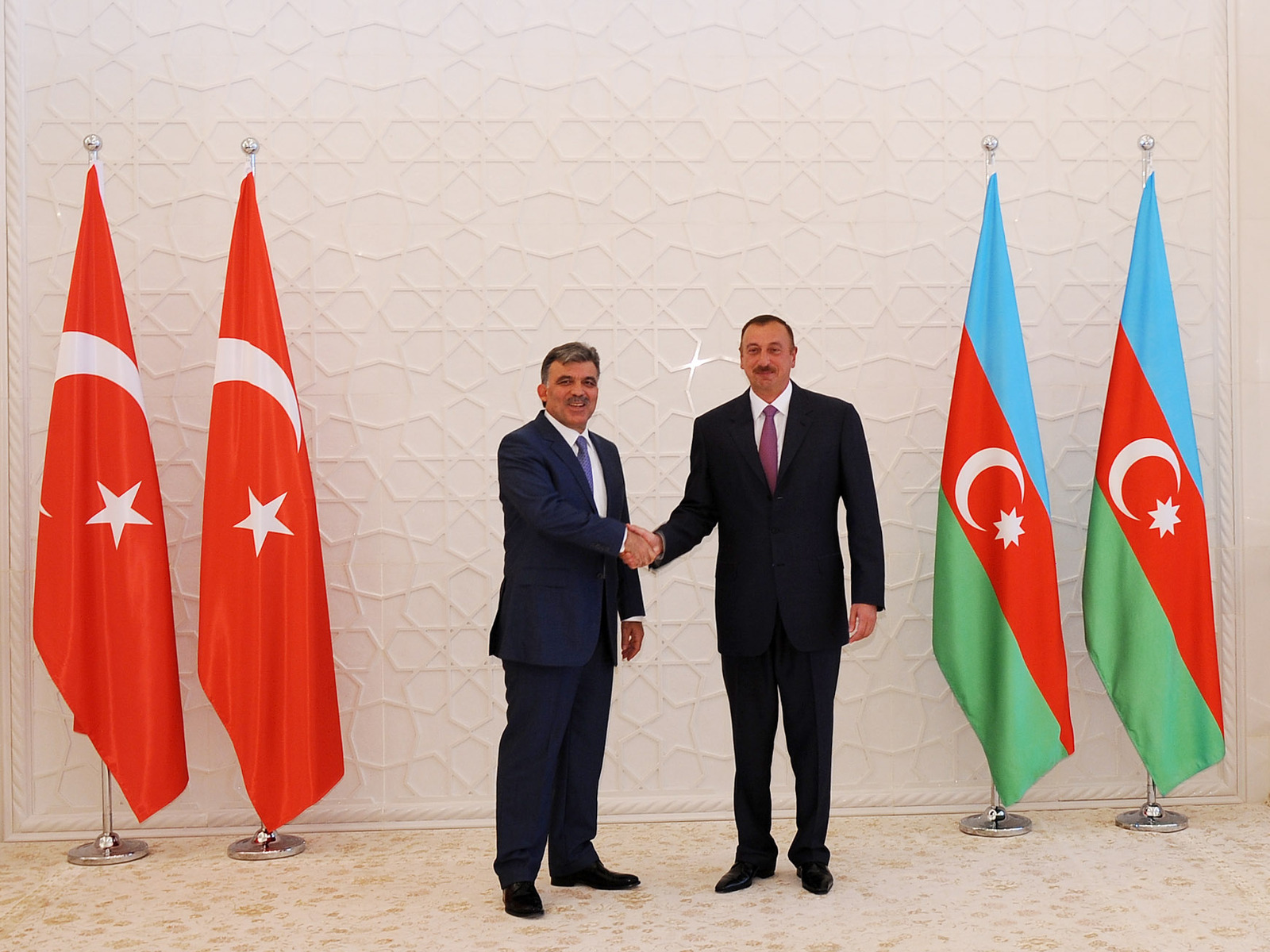 Ilham Aliyev and President of Turкey Abdullah Gül held a one-on-one meeting